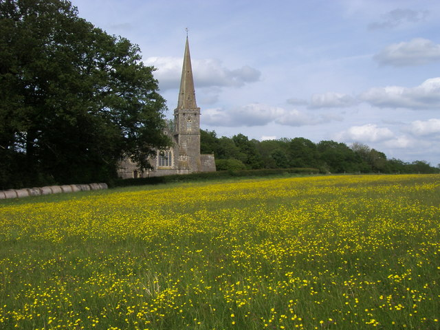 View northeast across a field at Midgham, Berkshire to St Matthew's parish church